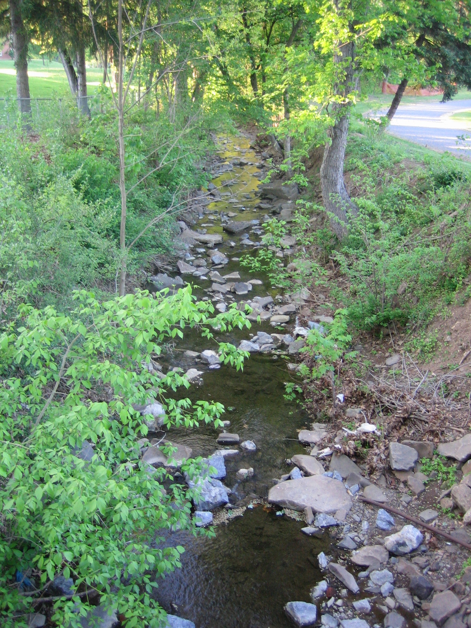 Big Run on the campus of the West Virginia Schools for the Deaf and Blind in Romney, West Virginia, United States.